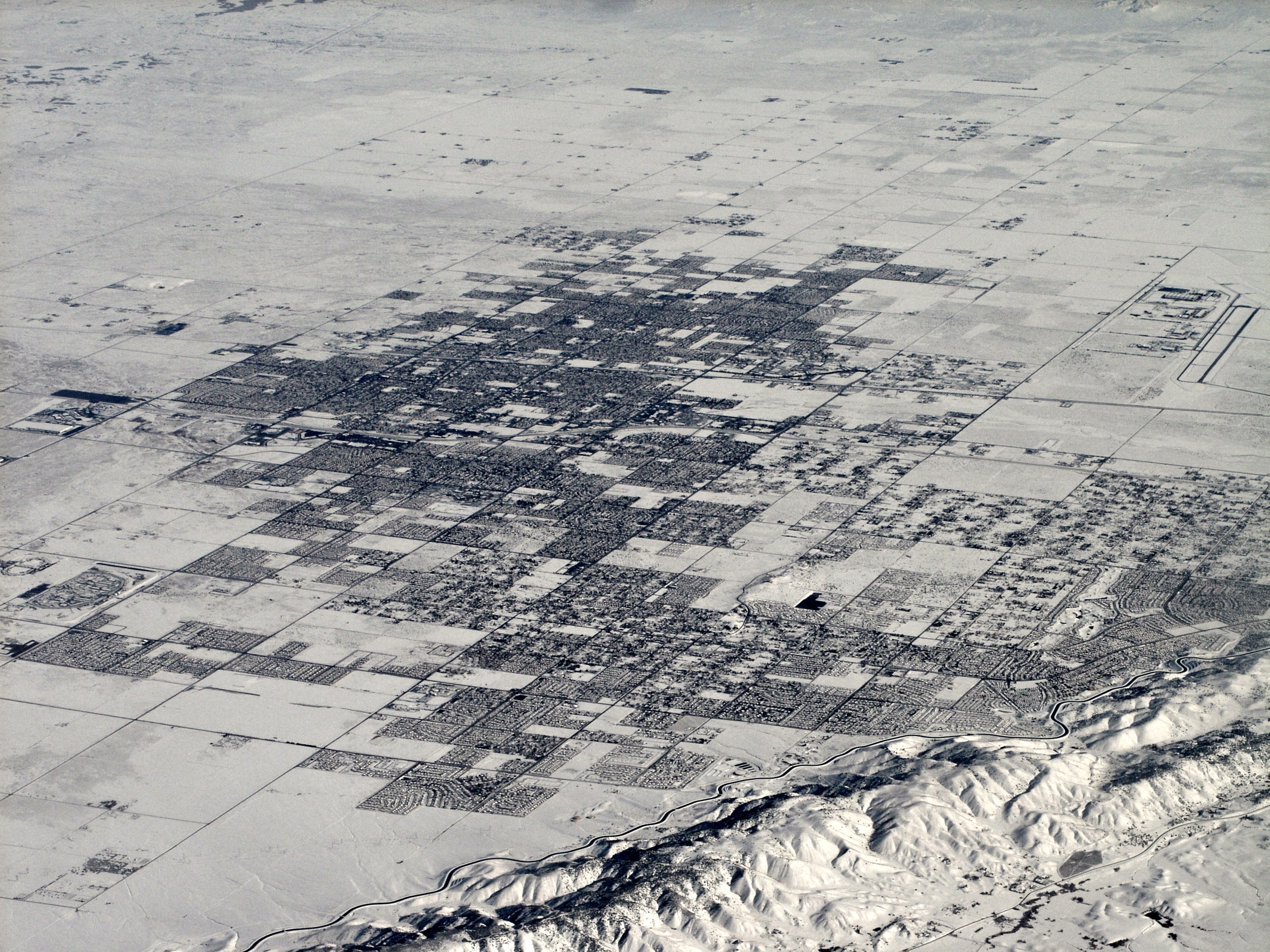 Lancaster, California covered in snow after a rare snowstorm in December, 2008.